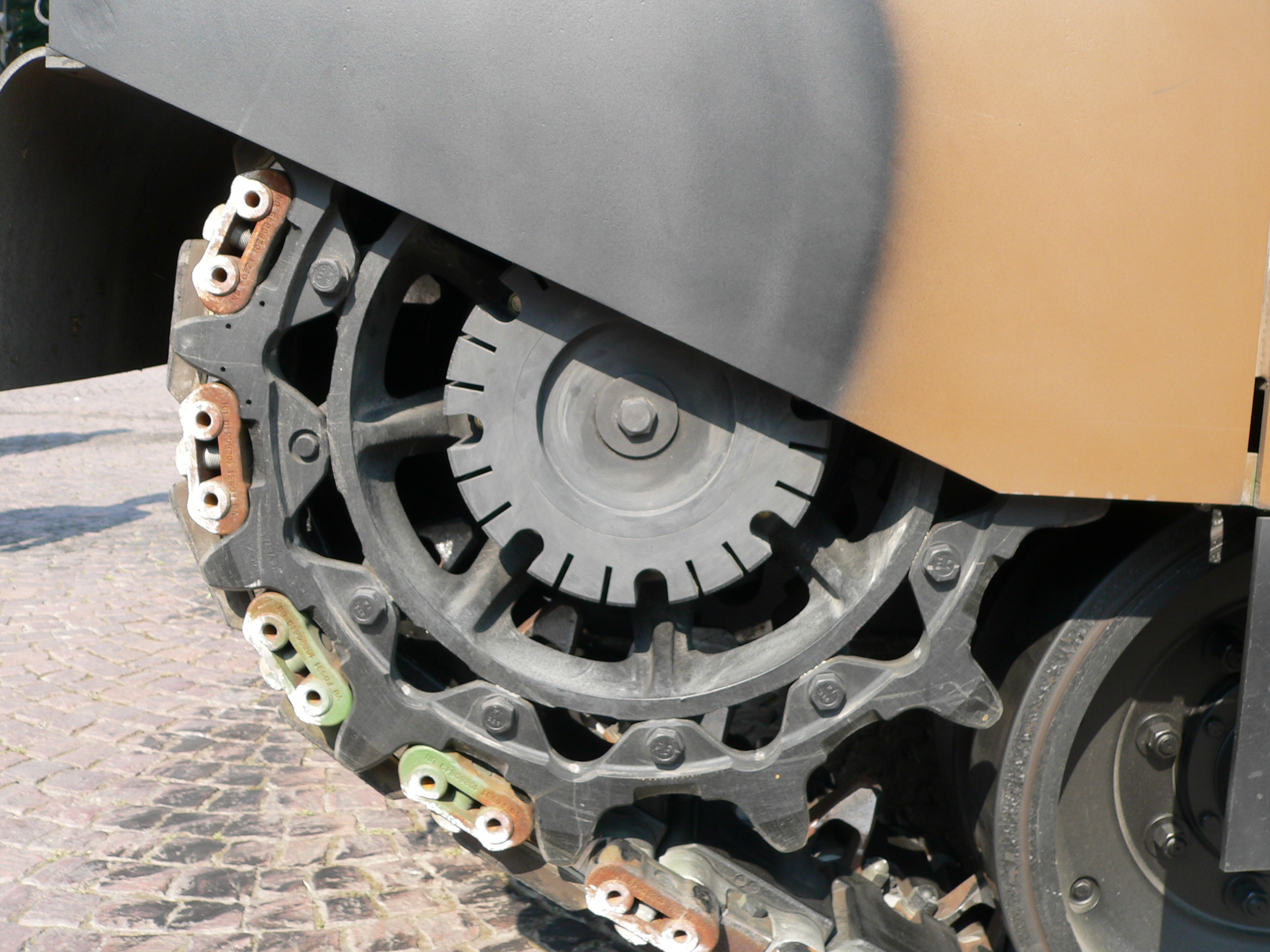 Leclerc main battle tank Military parade, Avenue des Champs-Élysées (Paris), 14 July 2006